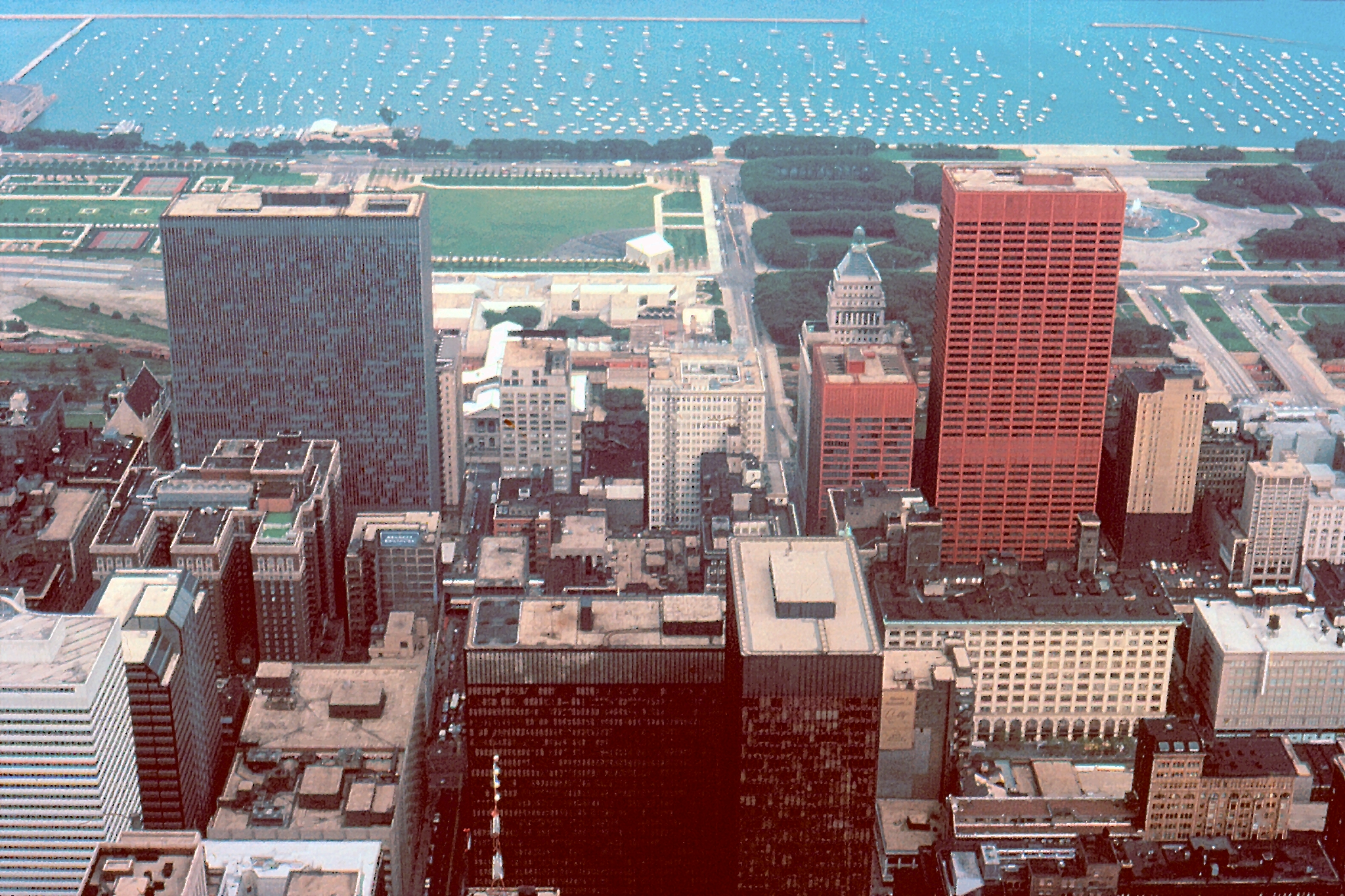 Chicago, view from Sears Tower, summer 1981